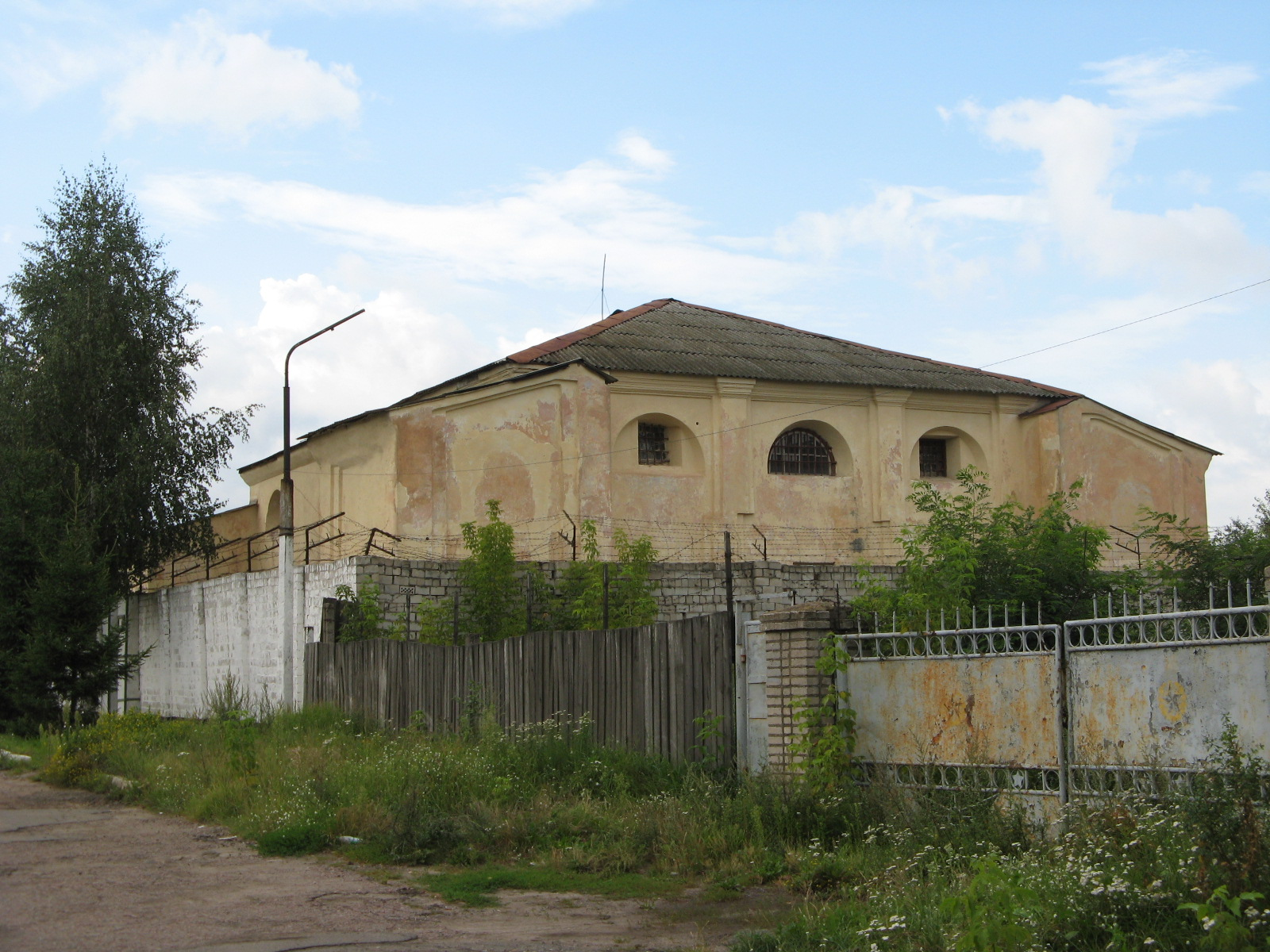 Roman-Catholic church of St. Peter and Paul (Babrujsk, modern condition)